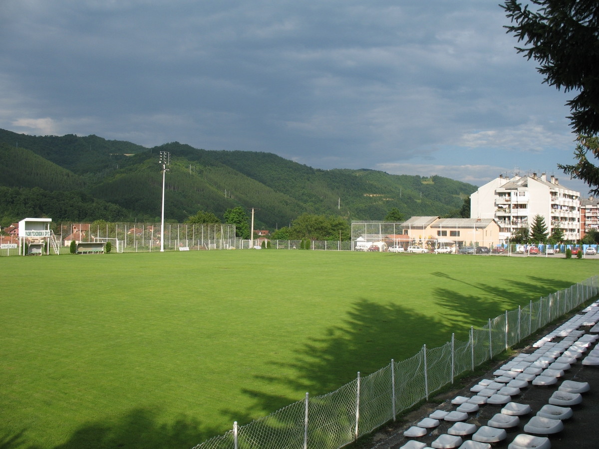 Stadium of FK Kopaonik in Brus, Serbia.